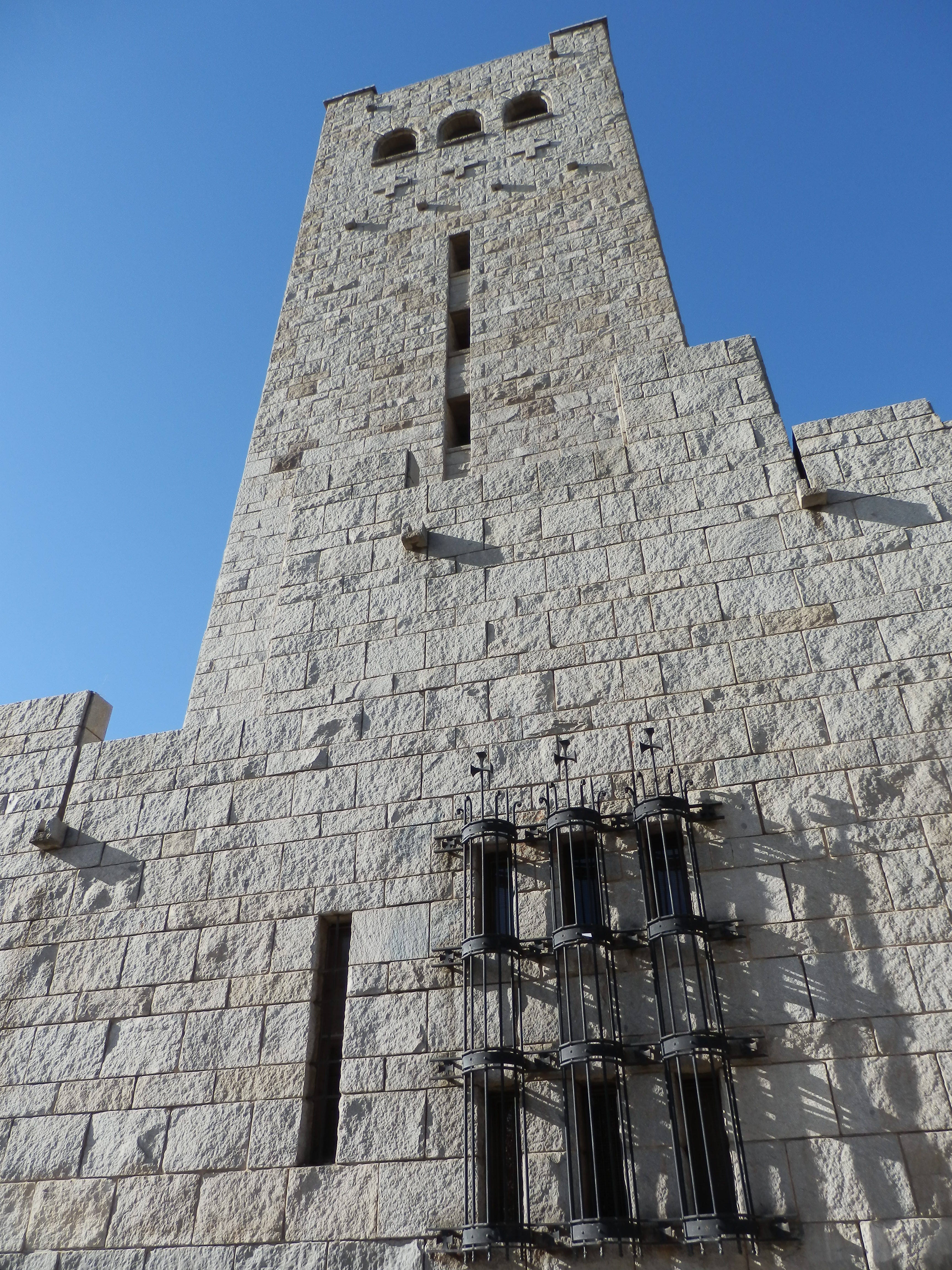 Mausoleum in Zaragoza for the Italian soldiers killed in the Spanish Civil War. Funded by Benito Mussolini. Completed in 1940.